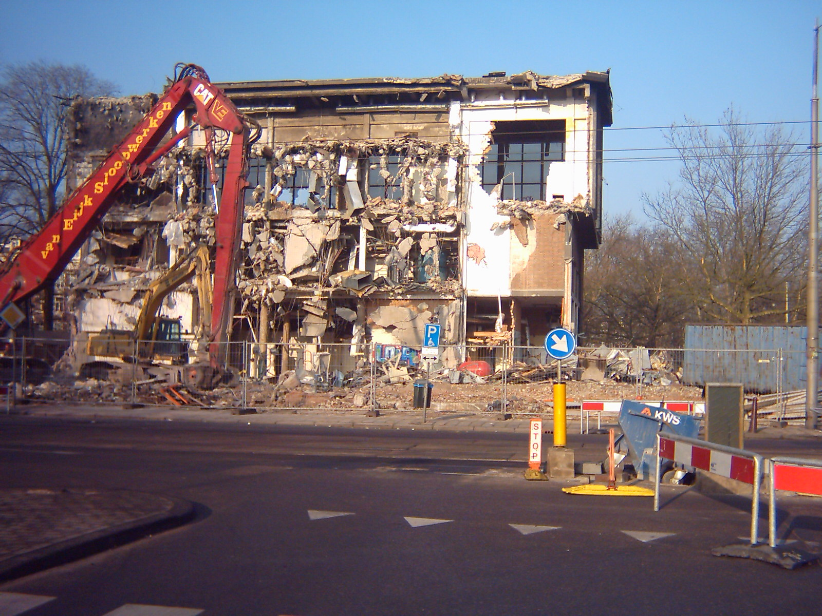 Marnixbad demolition in 2004, probably february